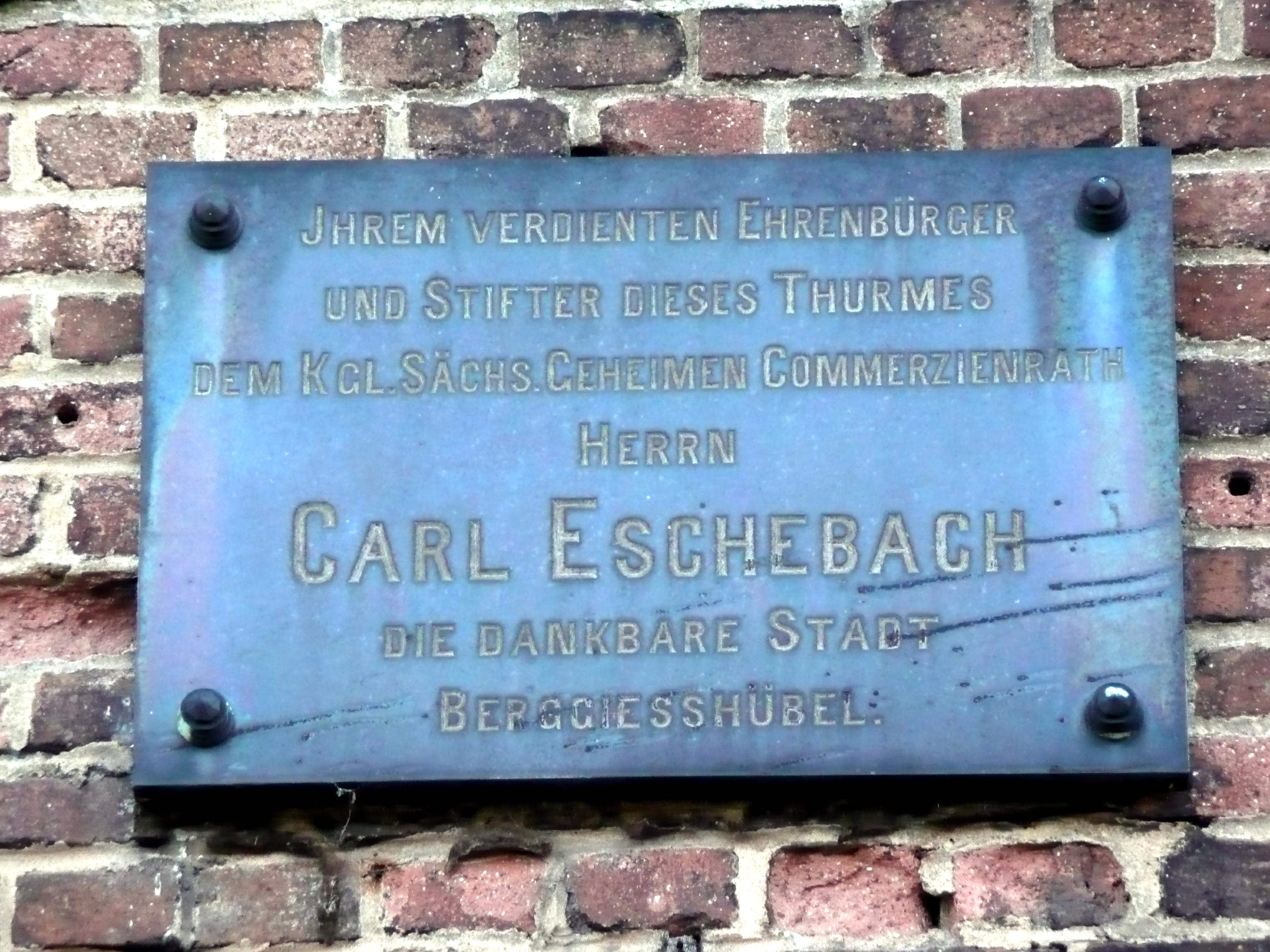 This image shows a inscription in memory of Carl Eschebach, the benefactor of the Bismarck tower near Berggießhübel.